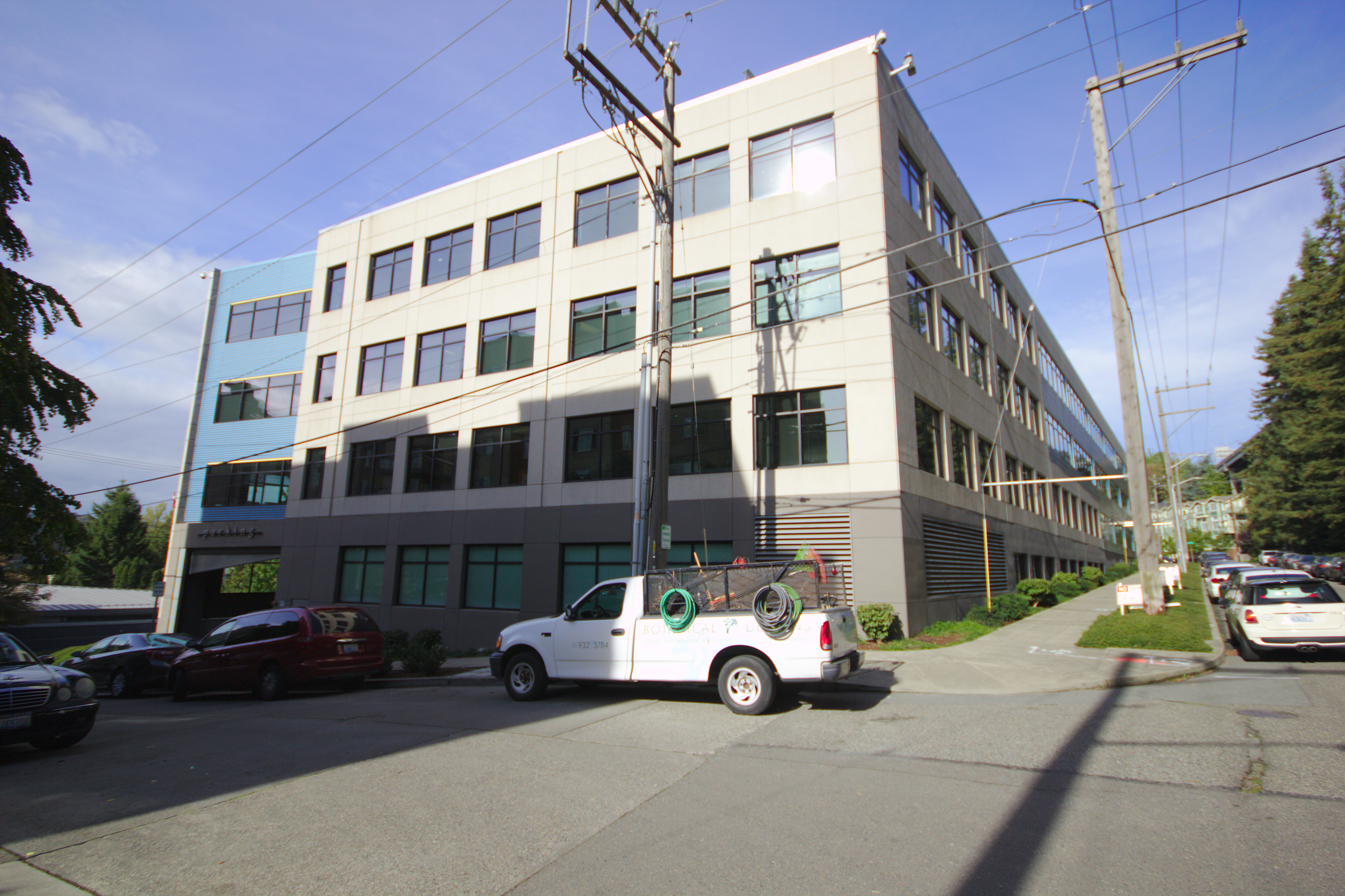 1616 Eastlake Ave E in the Eastlake neighborhood of Seattle, WA.